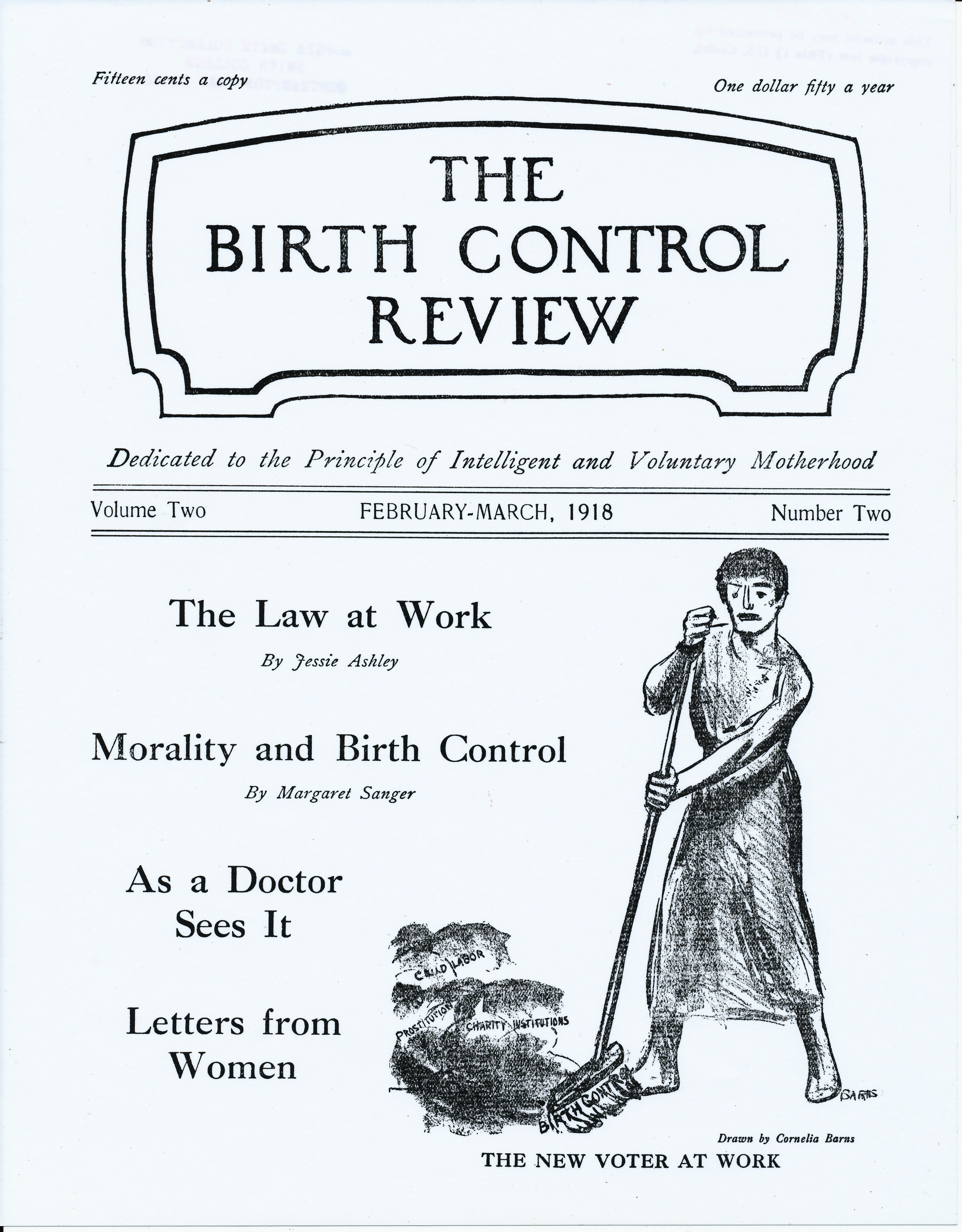 Cover of Birth Control Review February-March 1918 with cartoon image by Cornelia Barns, "The New Voter at Work." The voter is using the broom of “birth control” to sweep away "charity institutions," "prostitution," and "child labor."